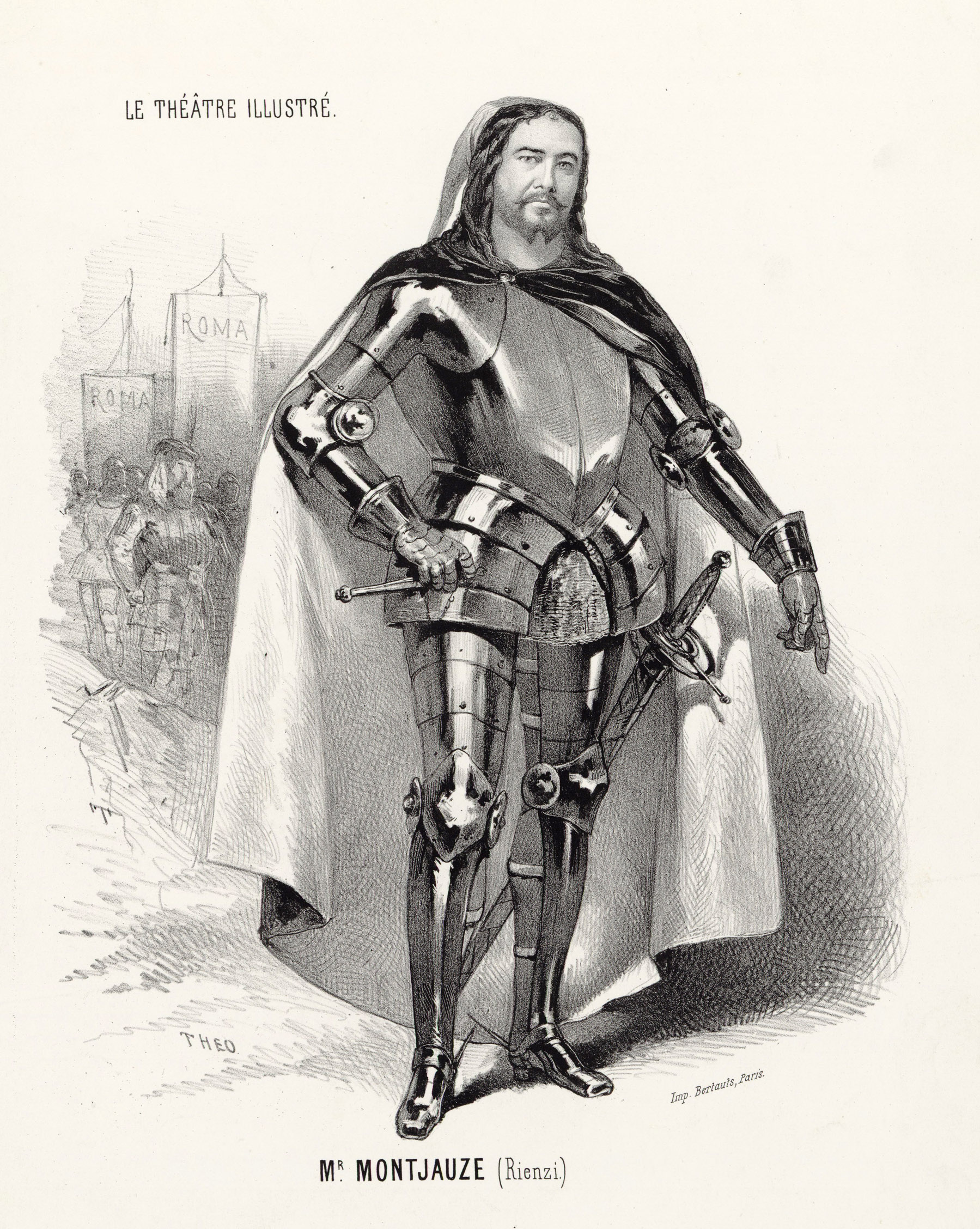 Jules Monjauze (1825–1877) in the title role of Wagner's opera Rienzi as performed at the Théâtre Lyrique in Paris beginning on 6 April 1869